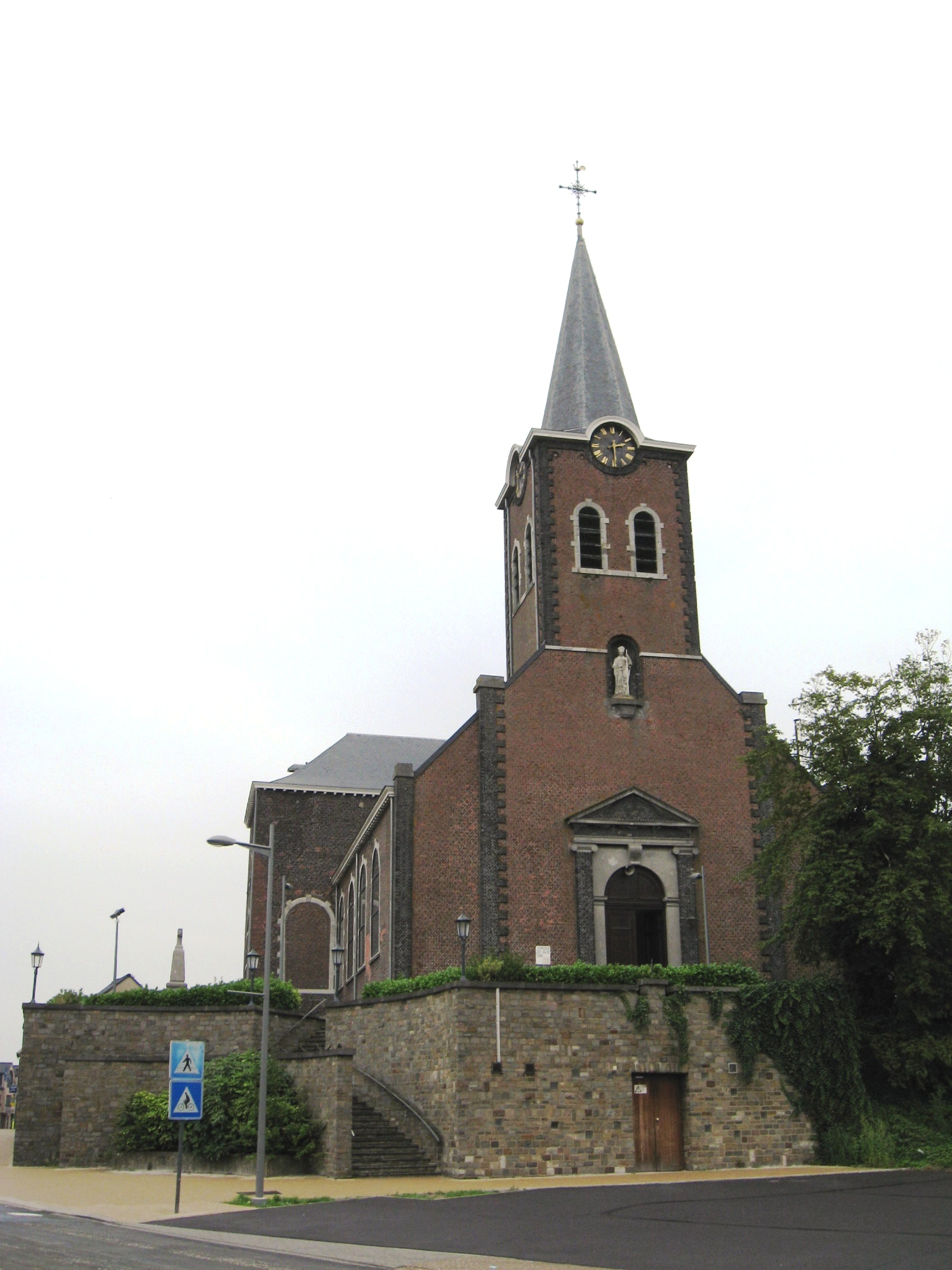 Church of Saint Lambert in Beverlo, Limburg, Belgium